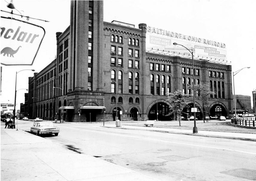 NE CORNER--INCLINED. Copy photograph of photogrammetric plate LC-HABS-GS05-T-2656-202L - Grand Central Station, 201 West Harrison Street (Corner of West Harrison & South Wells), Chicago, Cook County, IL. Reproduction no. HABS ILL,16-CHIG,18-6.